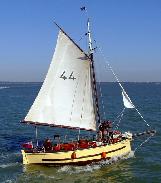 A Cutter boat, leaving Yarmouth harbour, Yarmouth, Isle of Wight, during the Old Gaffers Festival in readiness for the first event.